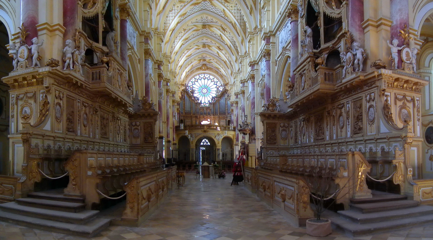 Choir area Ebrach AbbeyNative nameKloster EbrachLocationEbrach, Upper Franconia, GermanyCoordinates49° 50′ 50.87″ N, 10° 29′ 43.1″ E